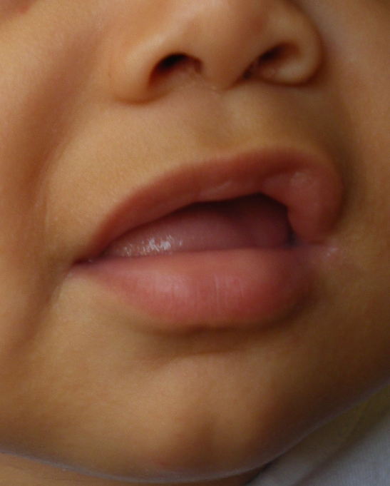 Baby swallowing